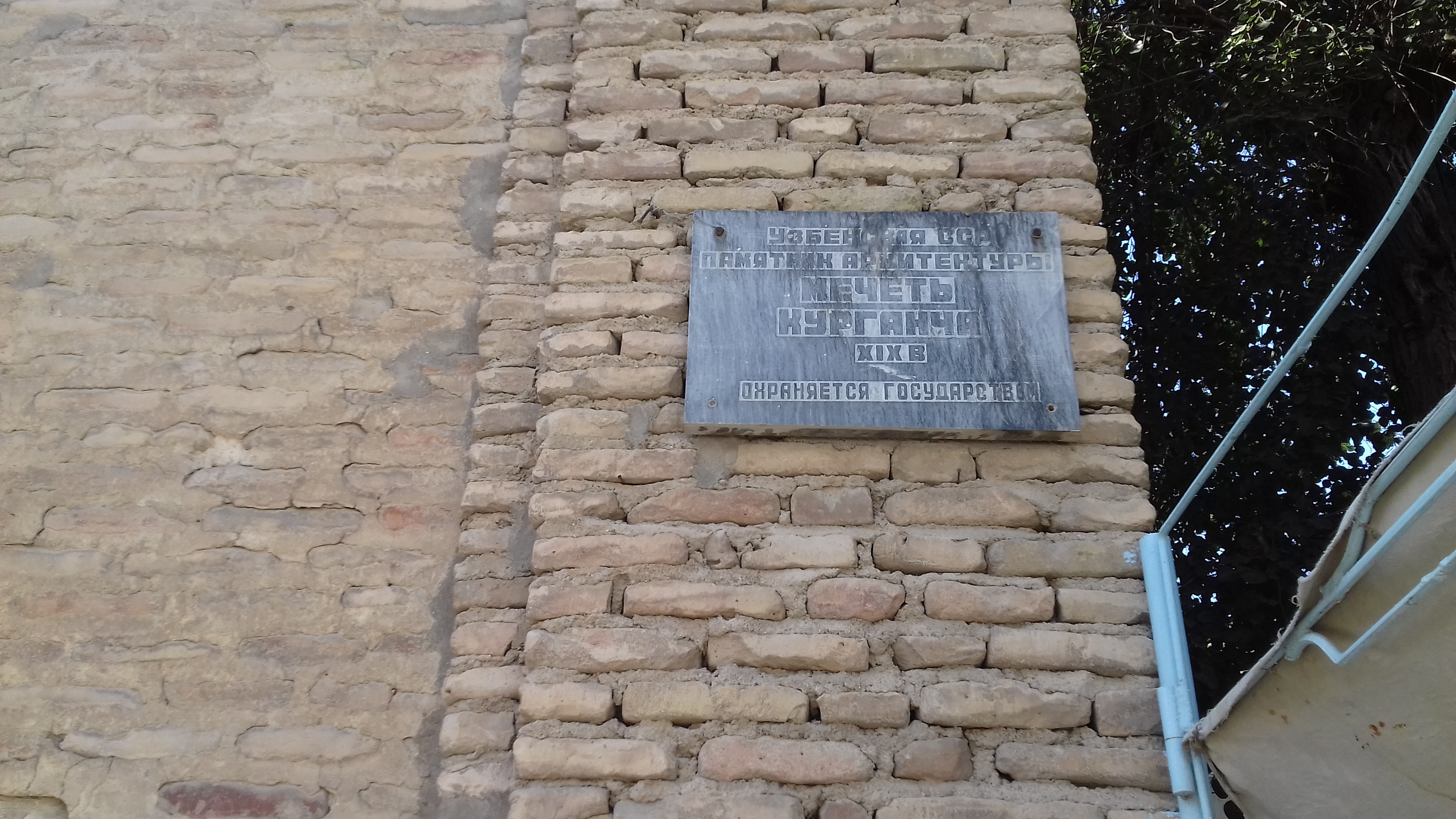 Information table in Kurgancha Mosque in Samarkand